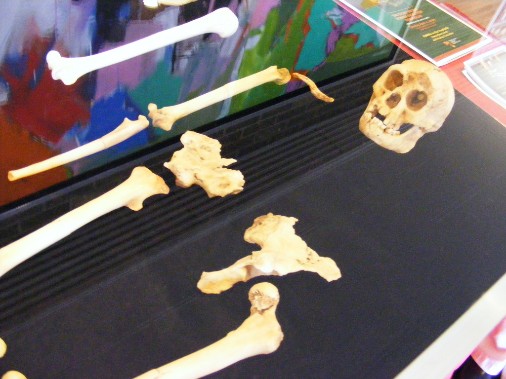 7th Human Evolution Symposium: Hobbit in the Haystack